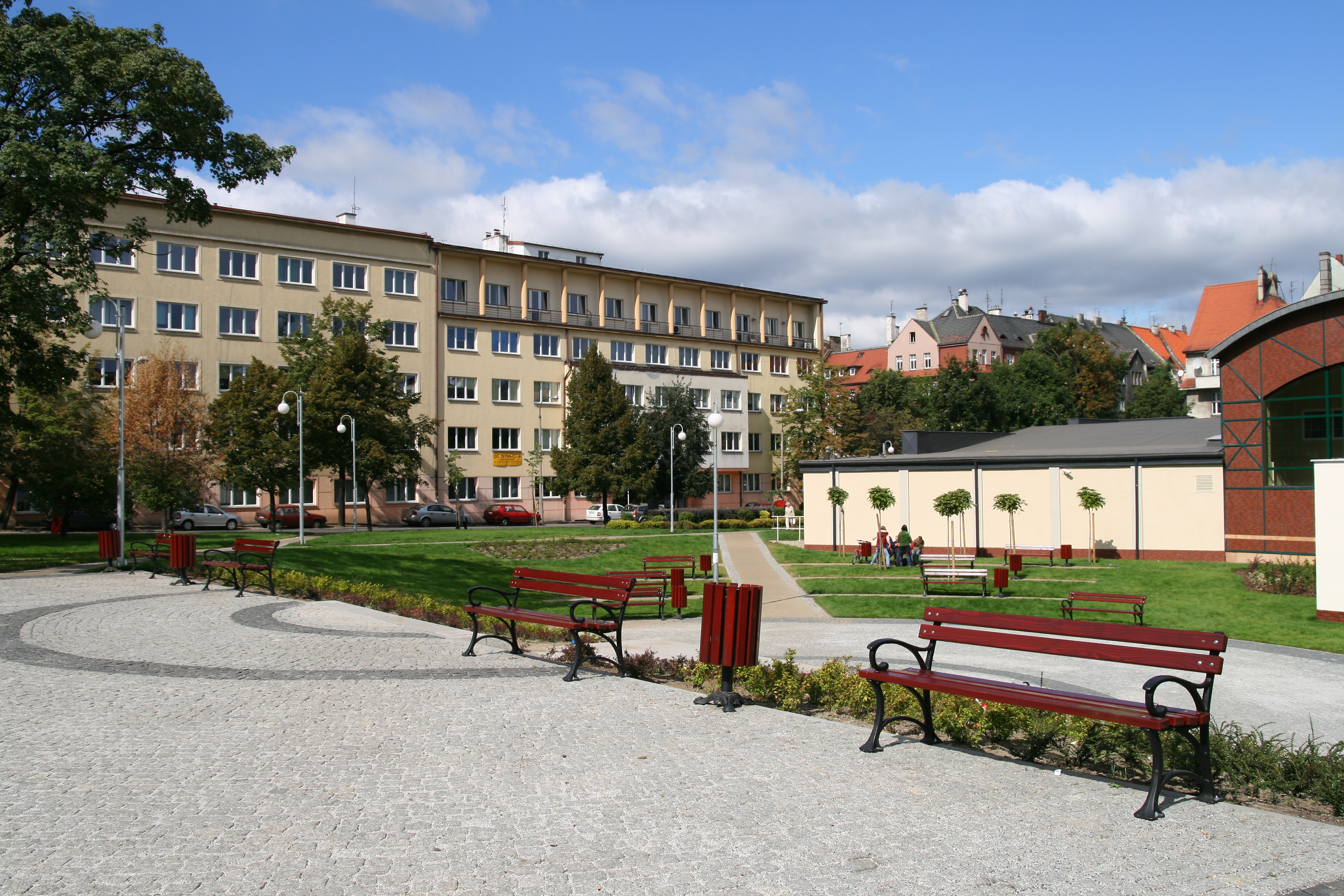 Wita Stwosza Street in Katowice (Poland).